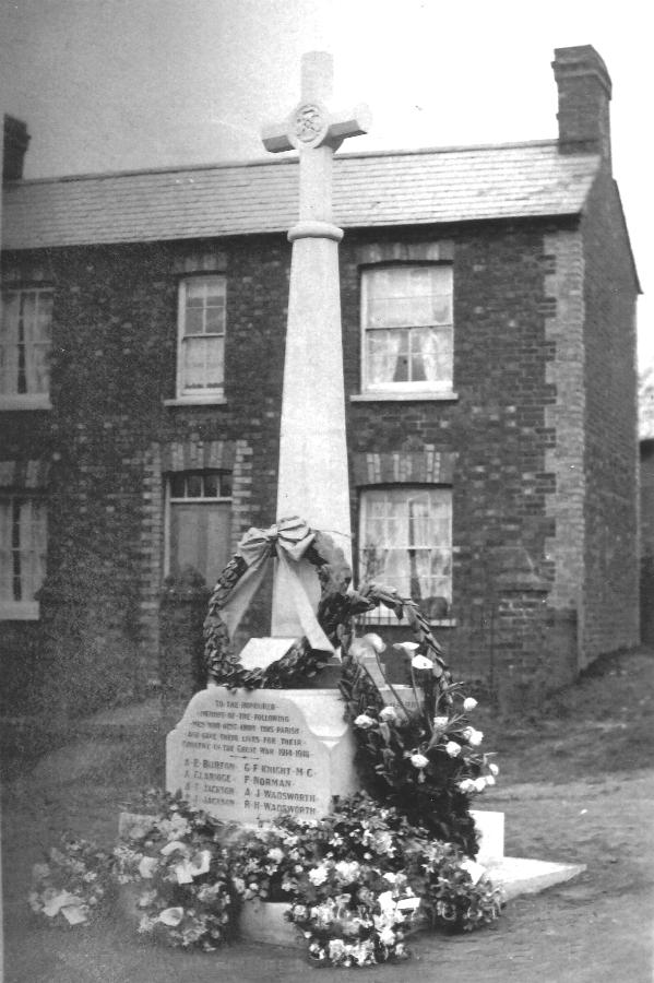 Bow Brickhill War Memorial, probably on its opening 1921